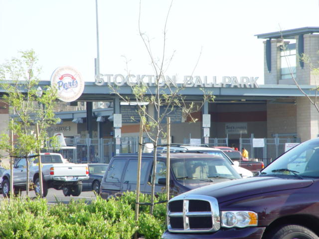 Own work, entrance of Banner Island Ballpark in Stockton, California. Own work, entrance of Banner Island Ballpark in Stockton, California.